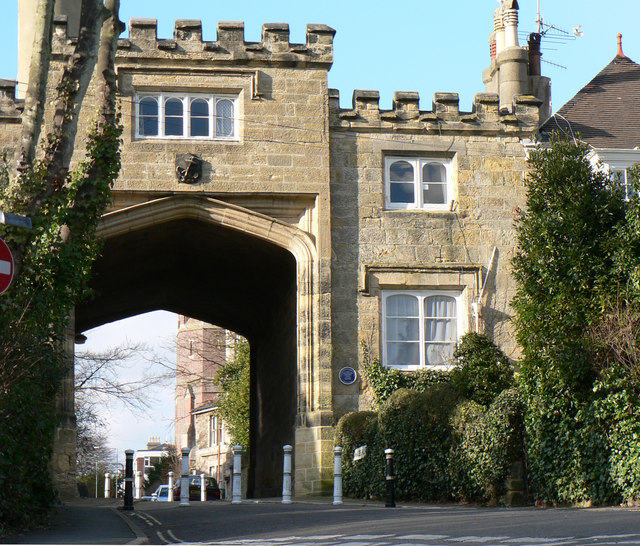 North Lodge in St Leonards on sea, gateway to 'Burton's St Leonards'. The North Lodge, designed by James Burton 1830. Sir Henry Rider Haggard, author of 'King Solomon's Mines', 'She', and other fine novels - lived here from 1918 to 1923.